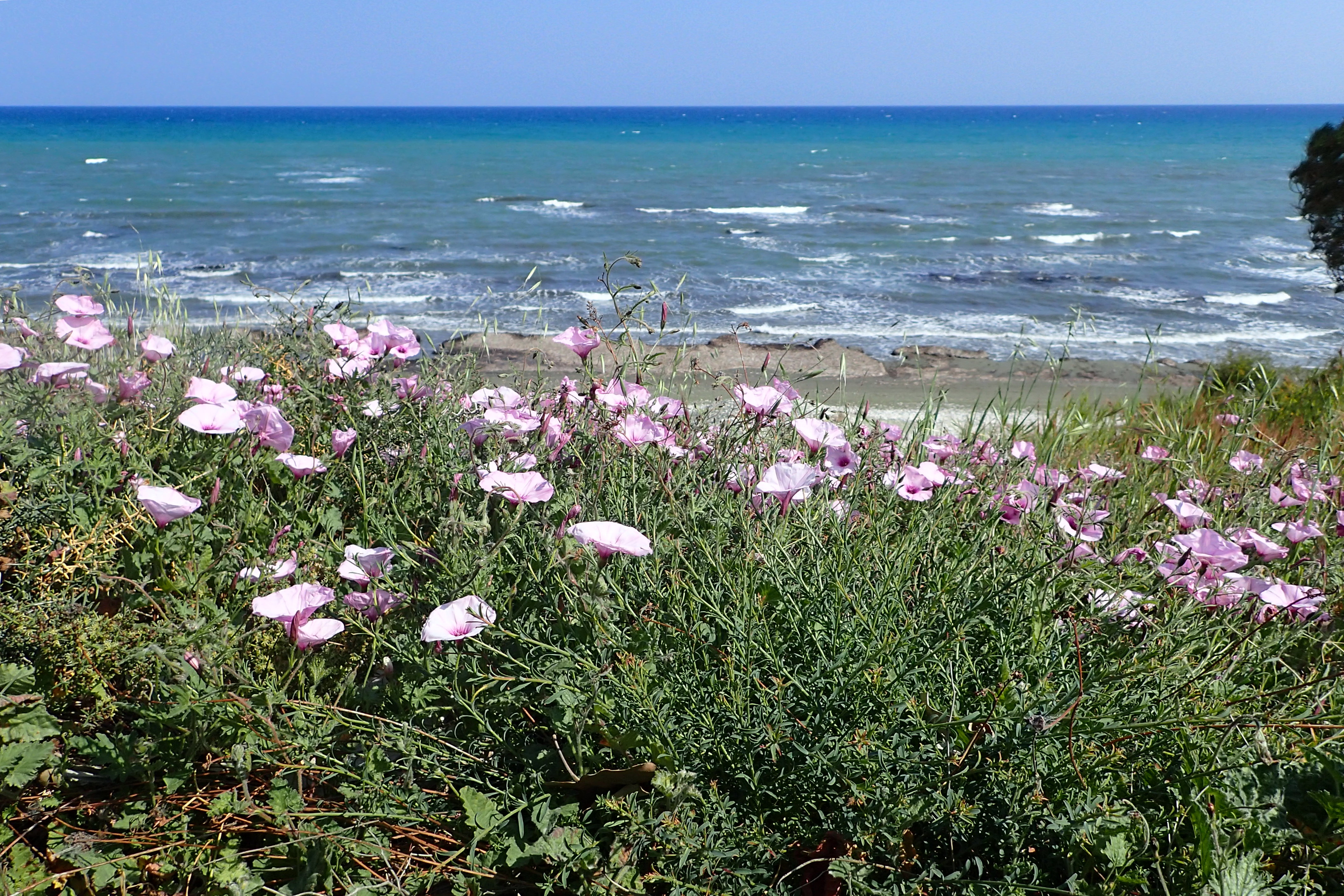 Convolvulus althaeoides at Kiti Cape, Cyprus